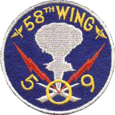 509th Bombardment Group emblem while assigned to the 58th Bombardment Wing. A copy of this emblem was down loaded from for use in my book “STRATEGIC AIR COMMAND An Organizational History” with the permission and approval of Marvin T. Broyhill, Webmaster.